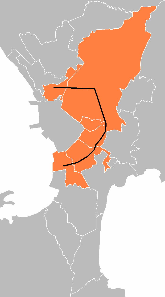 Location of Epifanio de los Santos Avenue in Metro Manila, showing the cities it bisects.